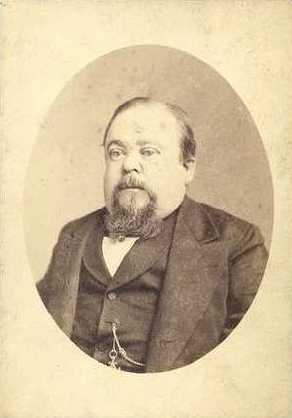 Charles Stratton